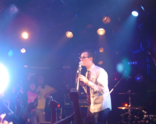 hellogoodbye show